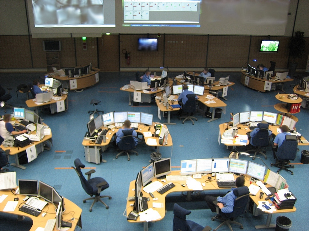 Emergency dispatch center (emergency response center) in Kerava, Finland